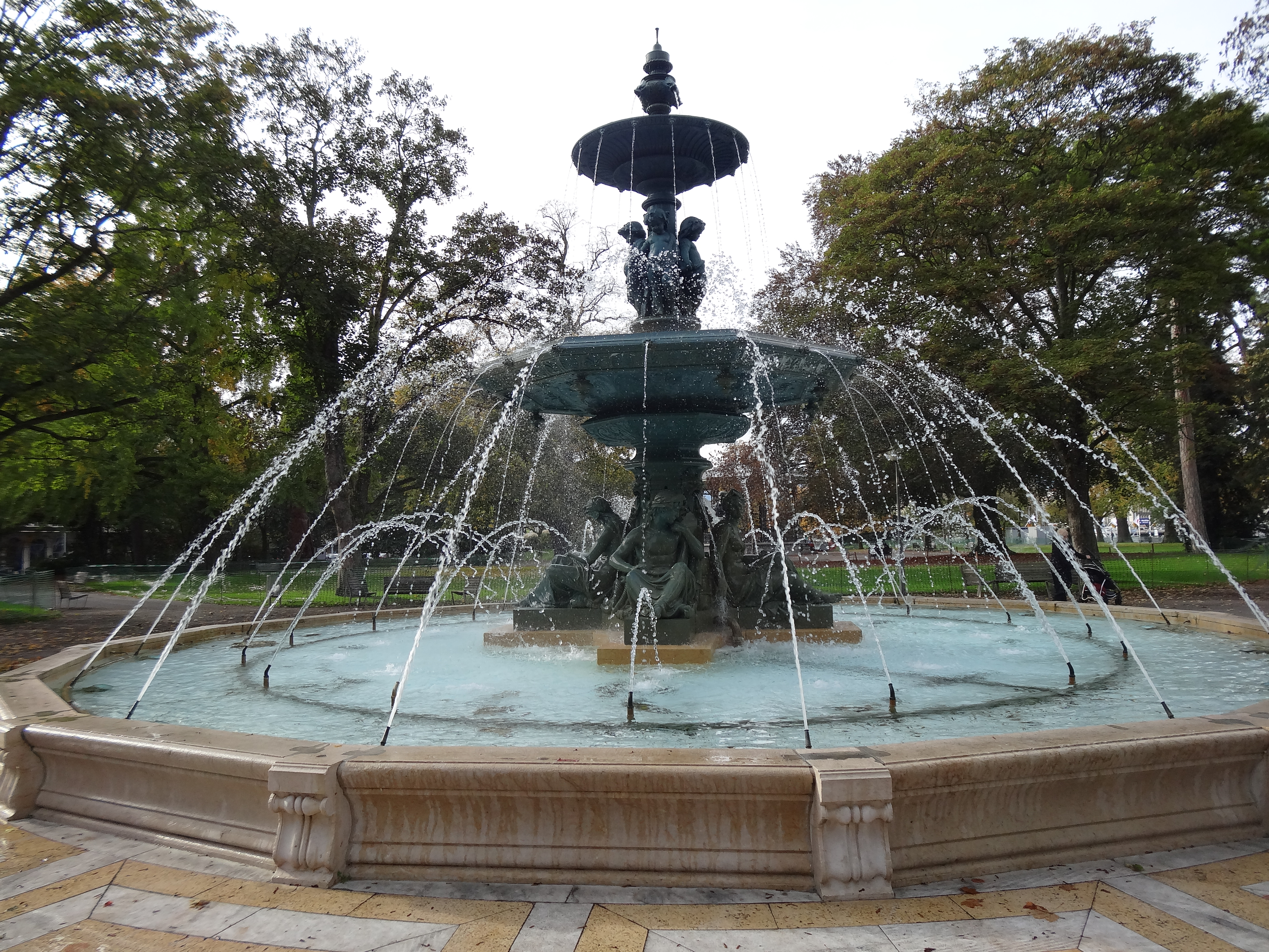 Geneva